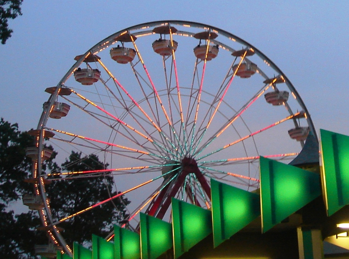 Title: Gondola Wheel ride at Playland Author: (Self)